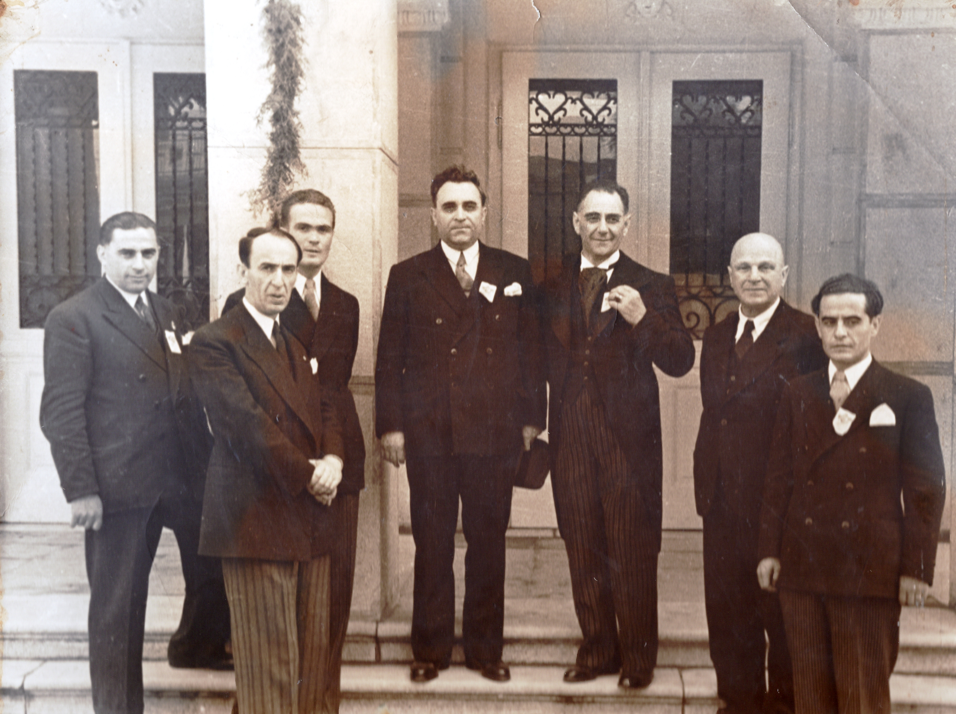 Bulgarian education minister Boris Yotsov, the director of the People's Theatre in Skopje, Stoil Stilov and the theatre's ensemble (1941-1944).